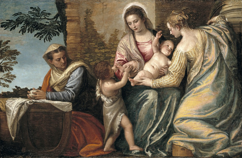 with St. Elizabeth, the Infant St. John the Baptist, and St. Catherine. Likely Catherine of Alessandria